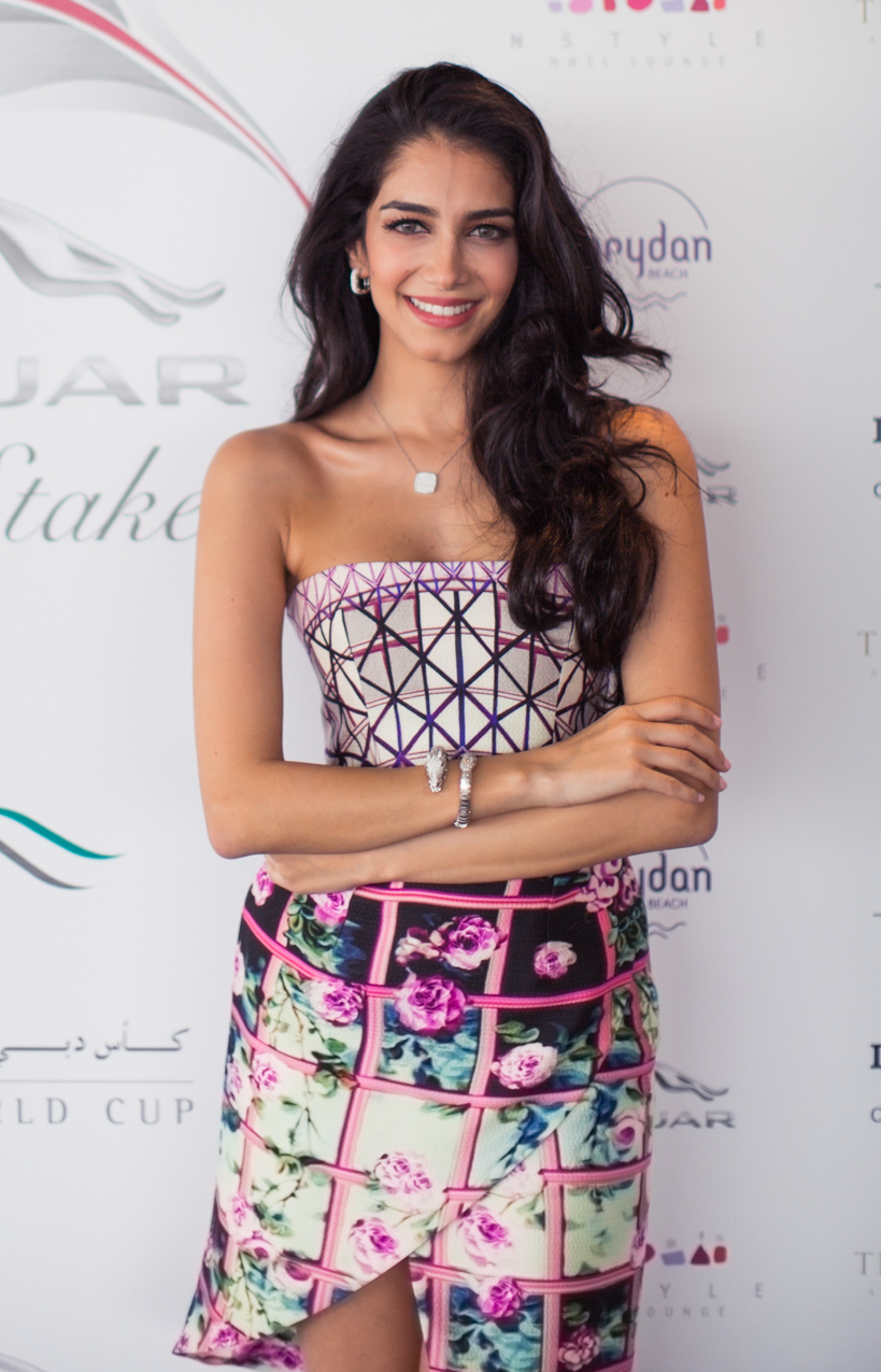 Luxury car brand Jaguar, along with its Style Stakes judging panel, revealed their secrets to the winning fashion formula at an exclusive Dubai World Cup preview evening. Jaguar took the opportunity to announce its new Style Stakes Judges at the exclusive event, named as Jessica Kahawaty, Alanoud Badr and Joelle Mardinian. Dubai’s fashion elite were then given a sneak preview of what the expert panel of judges will be looking for at this year’s Jaguar Style Stakes, which will take place on March 29th as part of the Dubai World Cup